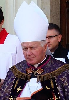 Adam Szal at the funeral of Adam Sudoł